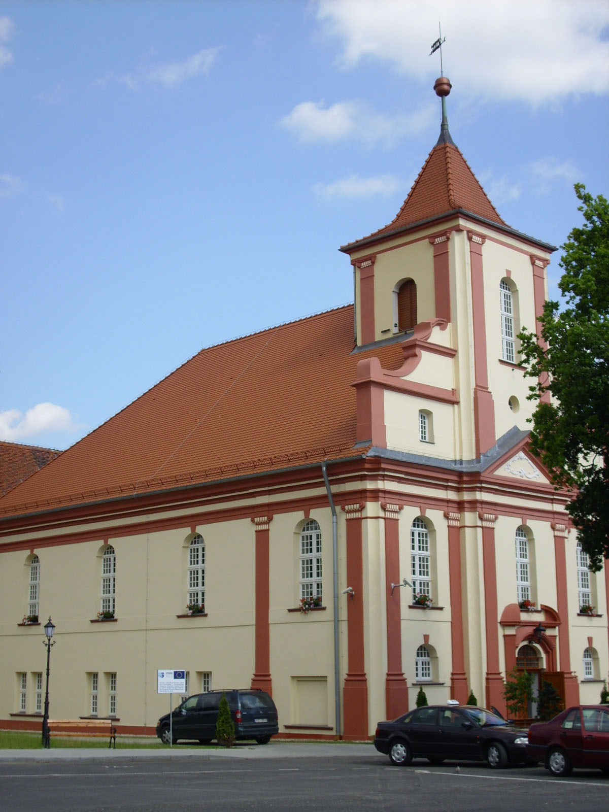 Calvins Church in Sulechow.